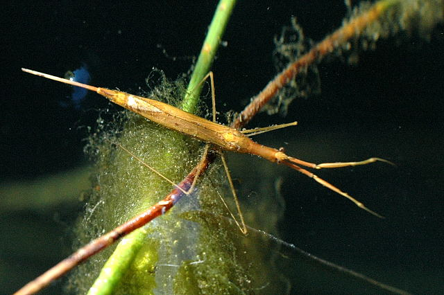 Ranatra linearis – Picture taken in Commanster, Belgian High Ardennes.